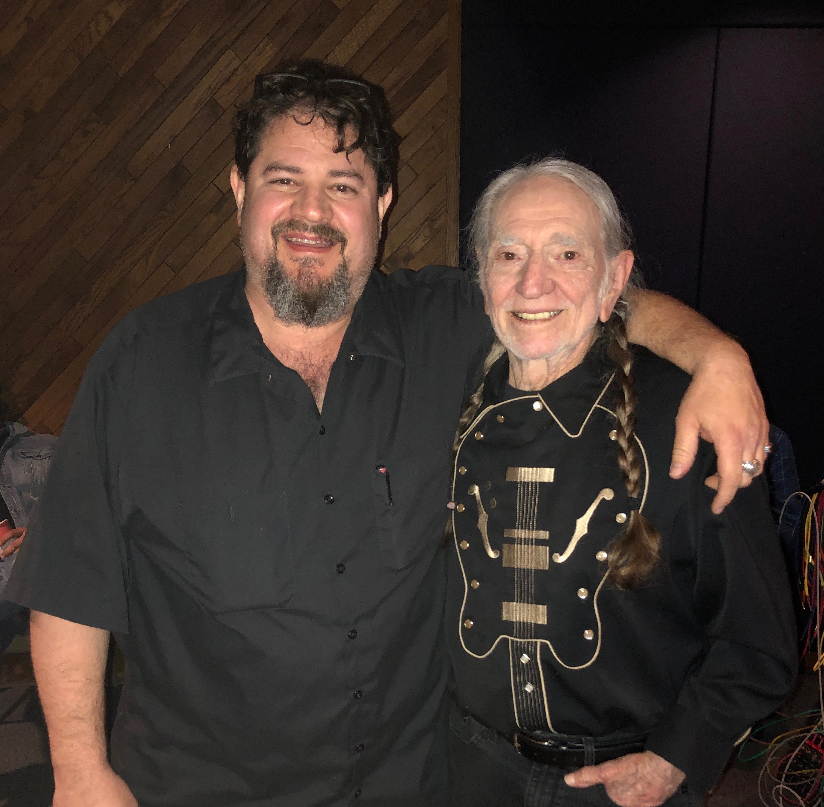 Willie Nelson and Steve Chadie, the audio engineer that has worked on all of Willie's albums in the last 25 years.